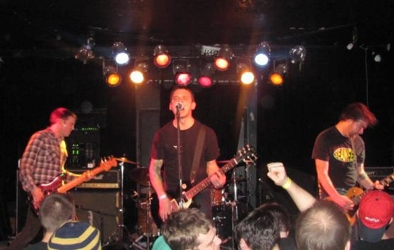 Noise By Numbers performing at the Beat Kitchen in Chicago, IL(L-R:Rick Uncapher, Dan Schafer, Jeff Dean)